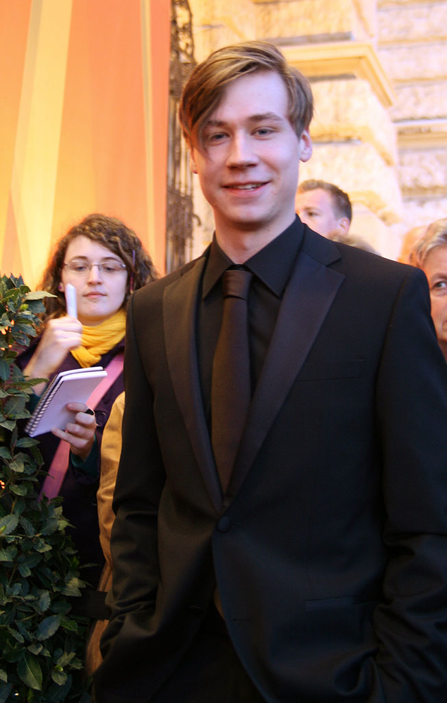 David Kross at the Romy TV awards (Hofburg Imperial Palace in Vienna)